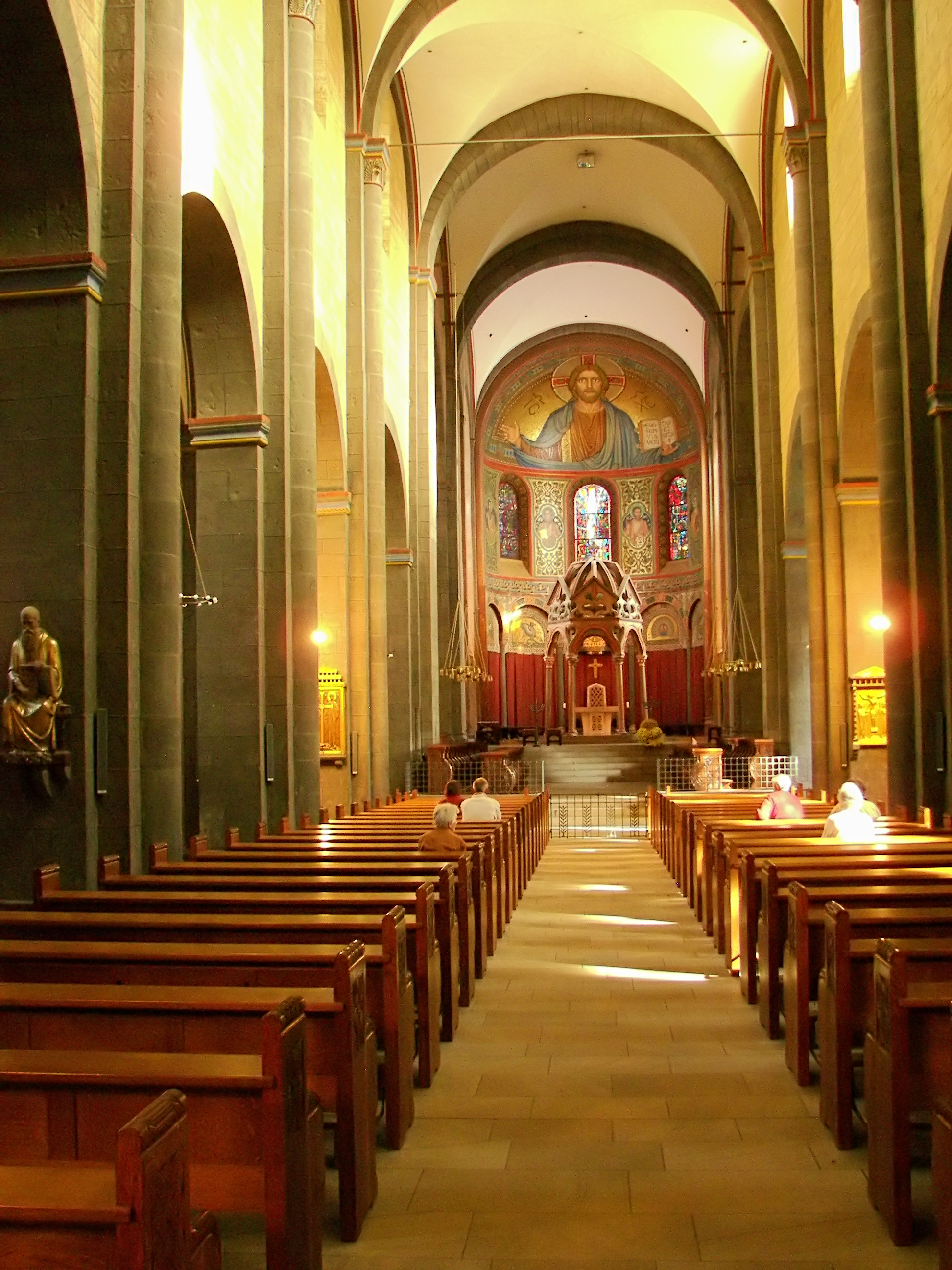 Maria Laach Abbey, Rhineland-Palatinate, Germany, own picture